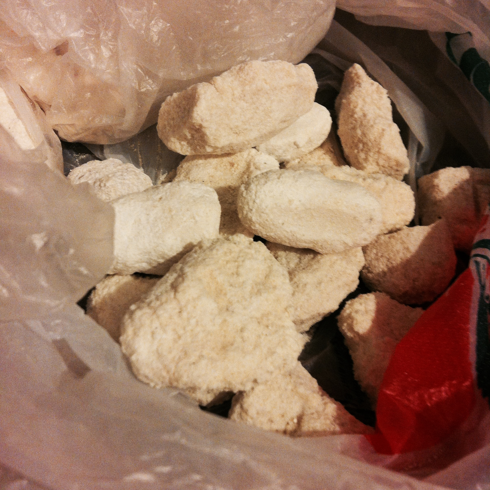 Kasachischer Kurt: Salziger, getrockneter Quark